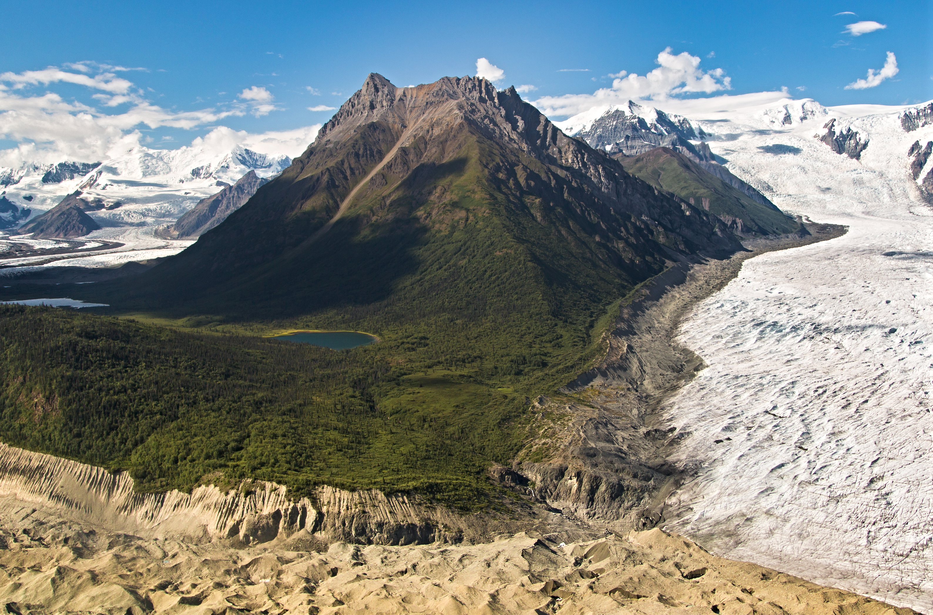 Donoho Peak and the confluence of the Kennicott and Root glaciers